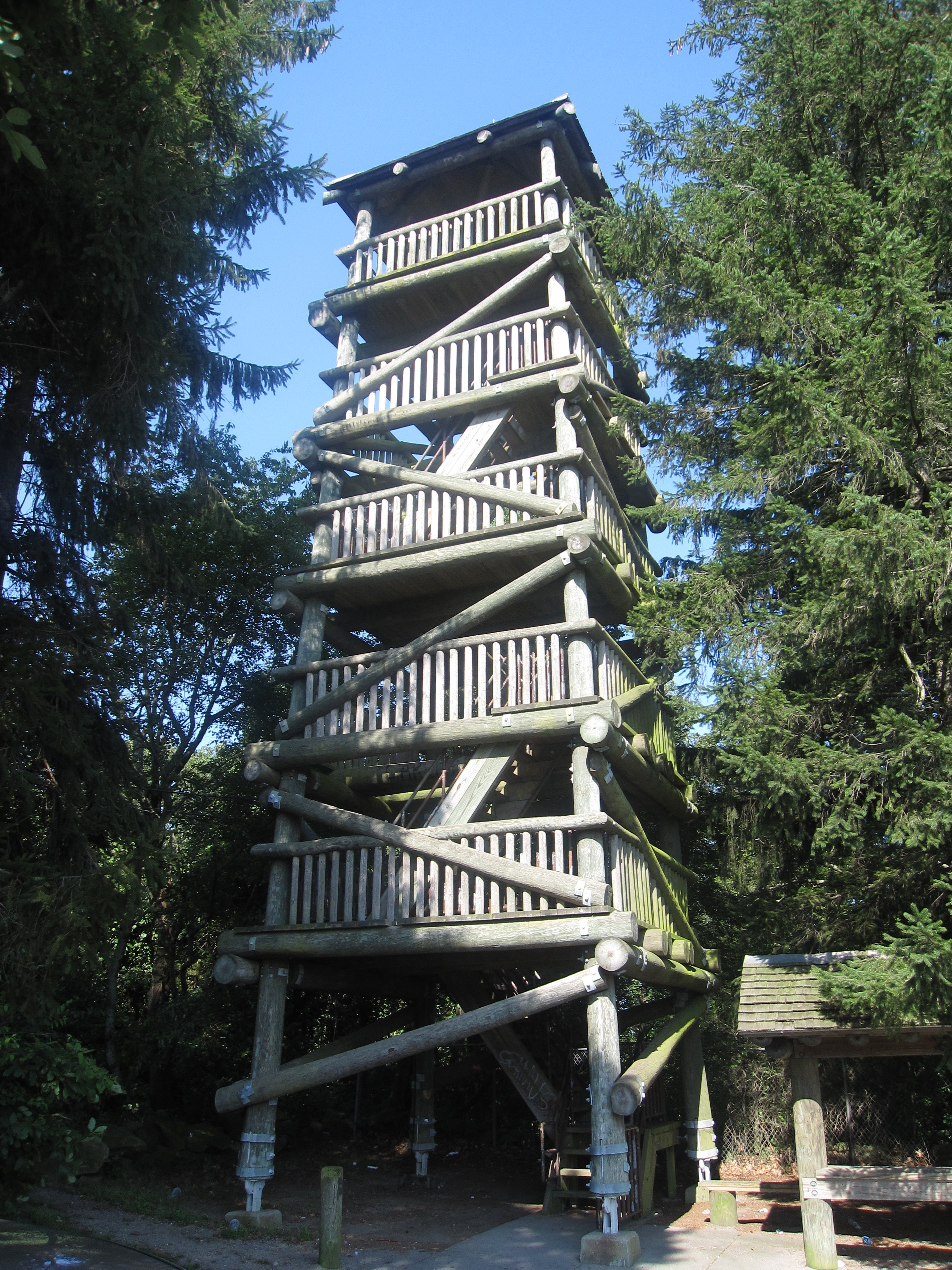 The Hannah Robinson Tower, an observation tower in South Kingston, RI